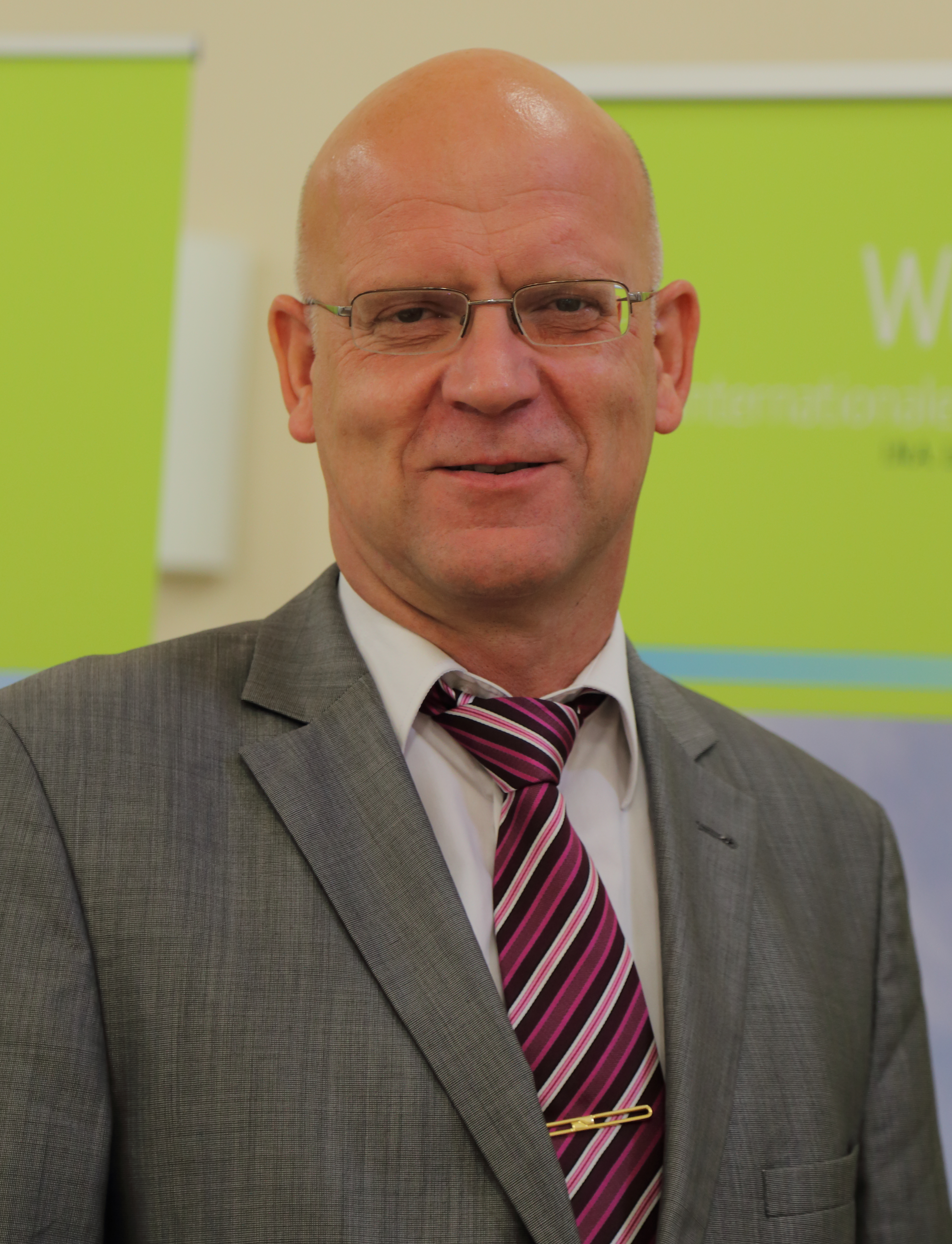 Stephan Loge, Landrat of the Landkreis Dahme-Spreewald, during a stay in Lieberose, Landkreis Dahme-Spreewald, Brandenburg, Germany.